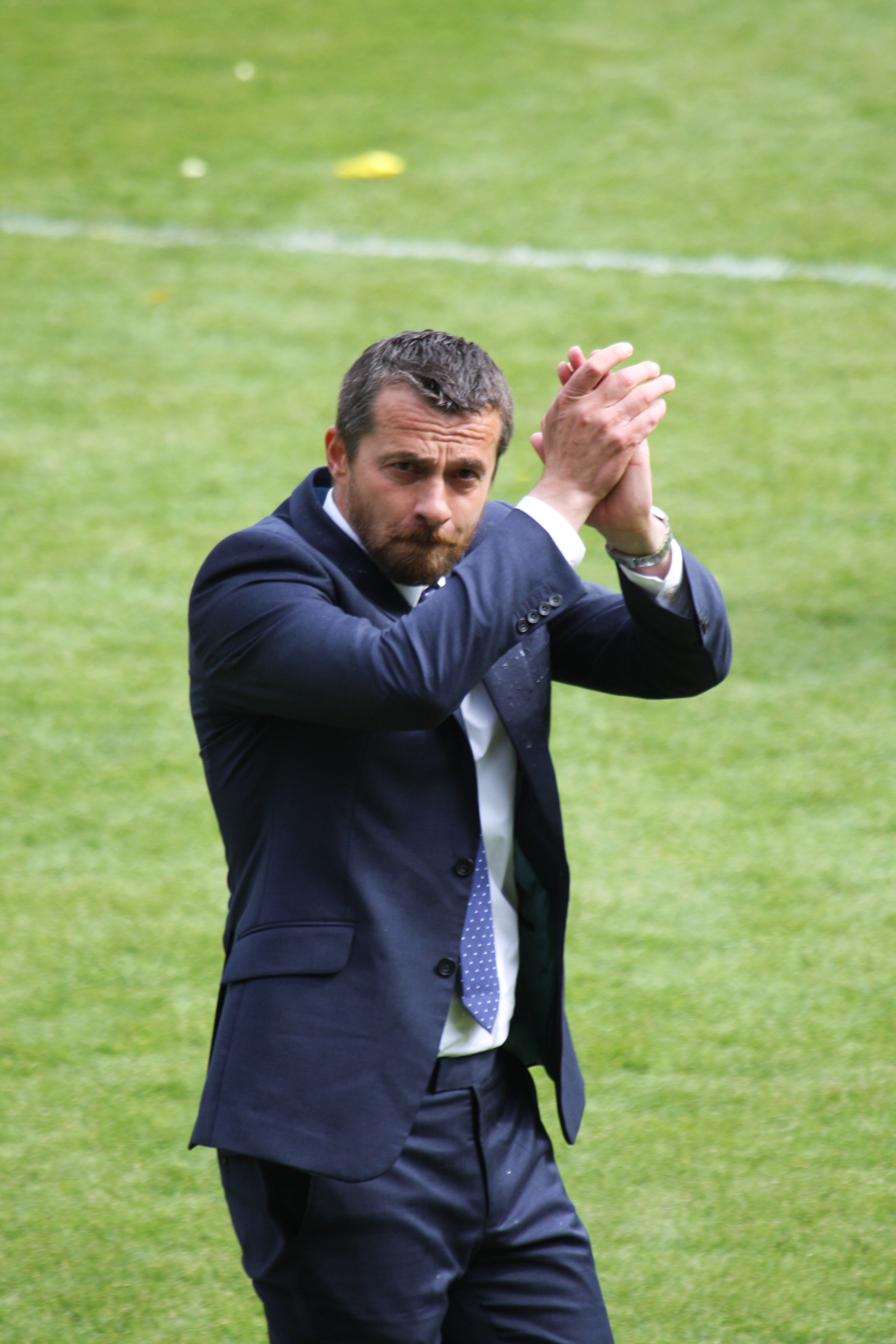 Slaviša Jokanović thanking the crowd during the lap of honour after 2014/15 season.